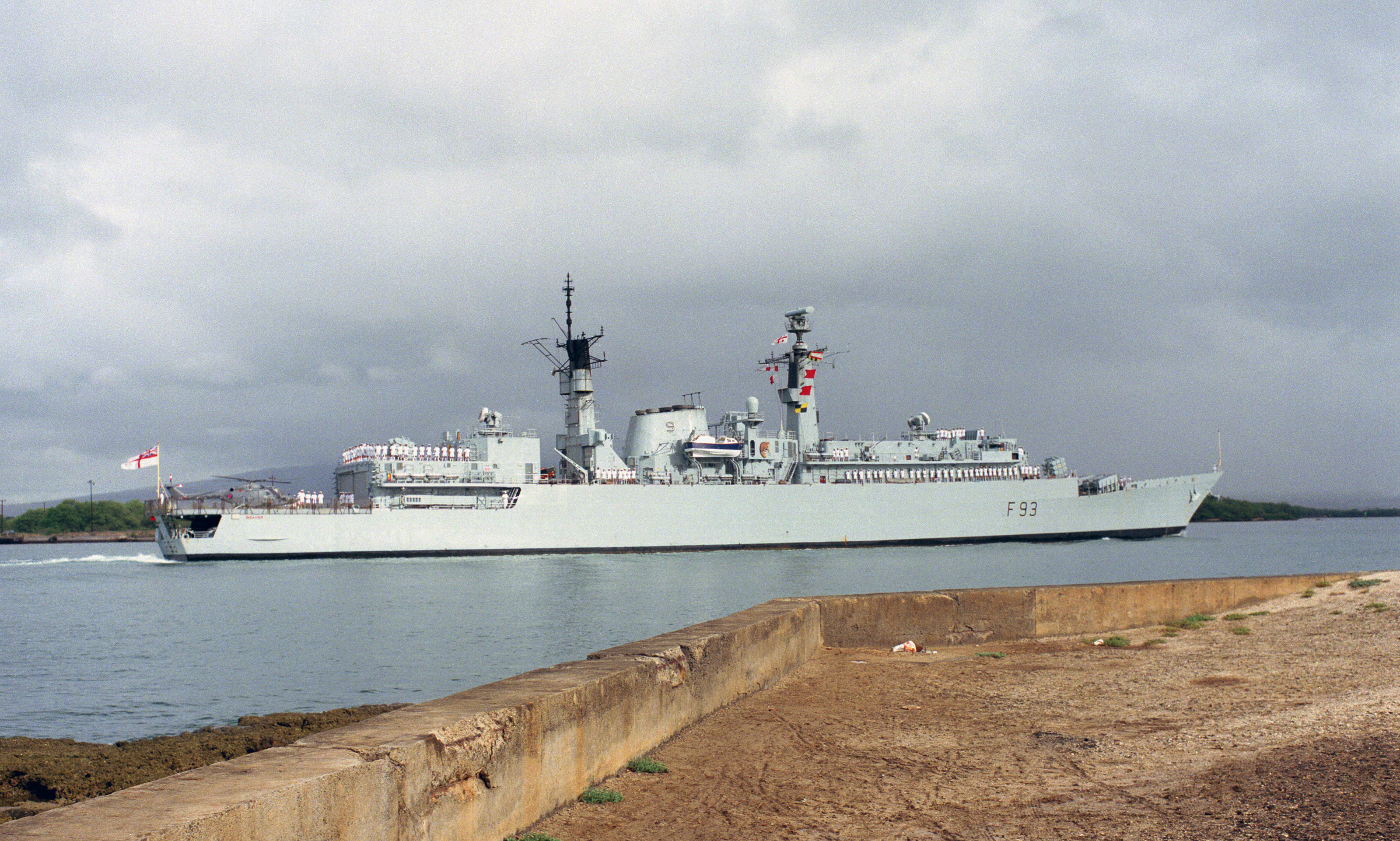 A starboard beam view of the British frigate HMS Beaver (F93) entering port at Pearl Harbor, Hawaii, during Exercise RIMPAC '86.